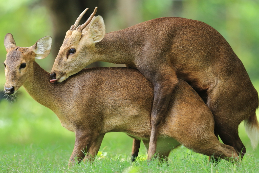 Hog Deers